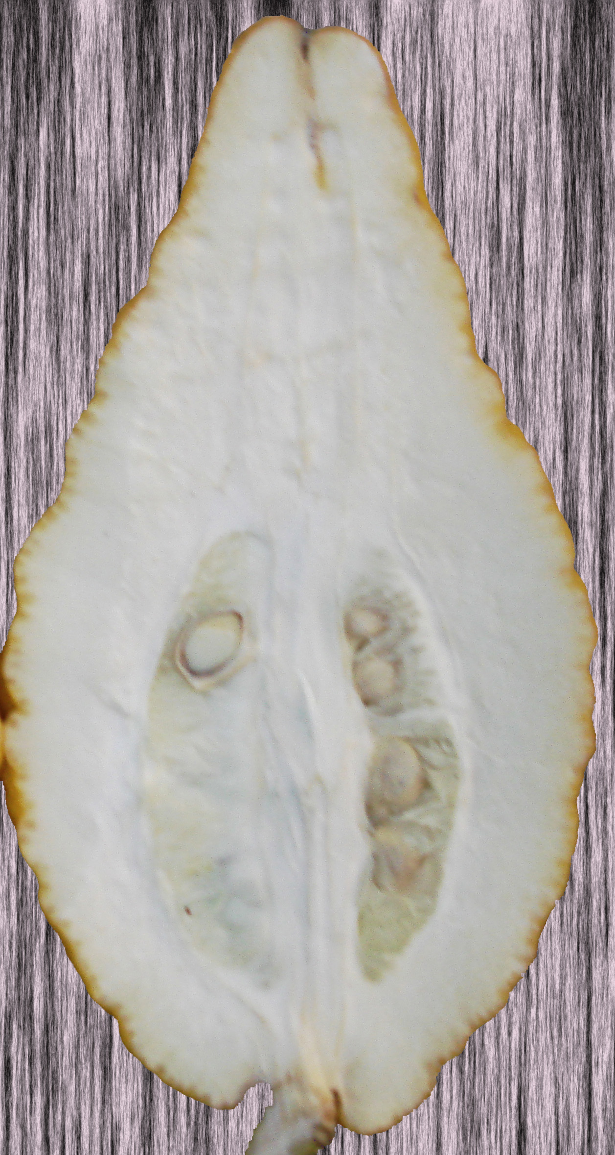 Cross section Lefkowitz Citron